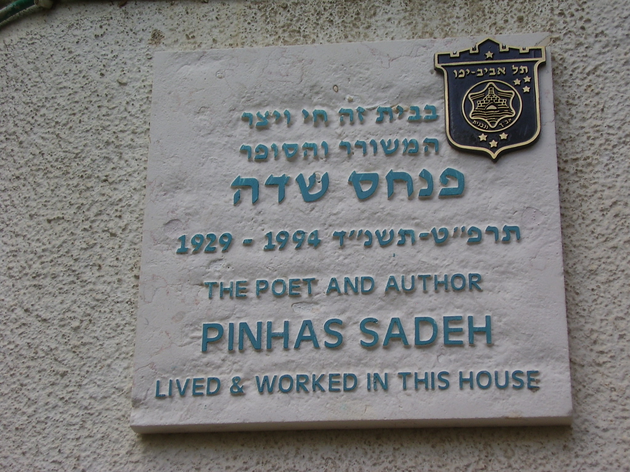 meorial plate on the house of pinhas sadeh house